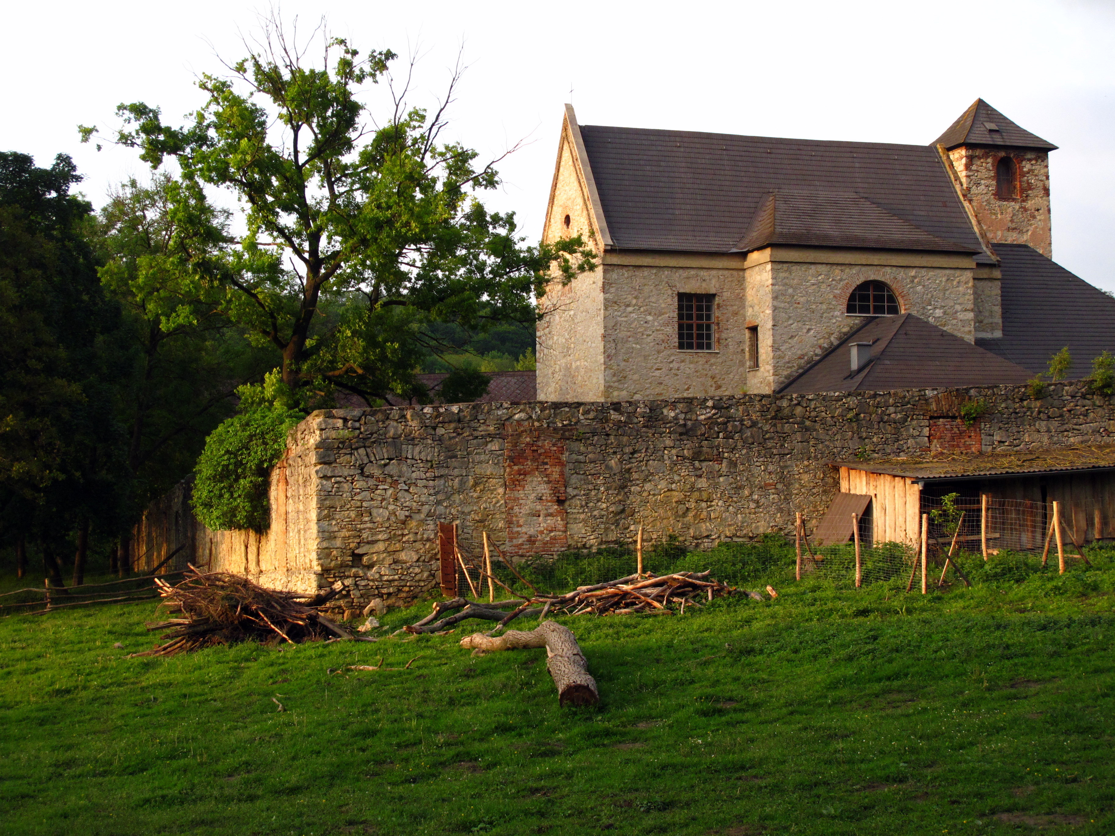 Church of the ruined monastery "In the desert" near the village Mannersdorf am Leithagebirge / Lower Austria / Austria / EU.